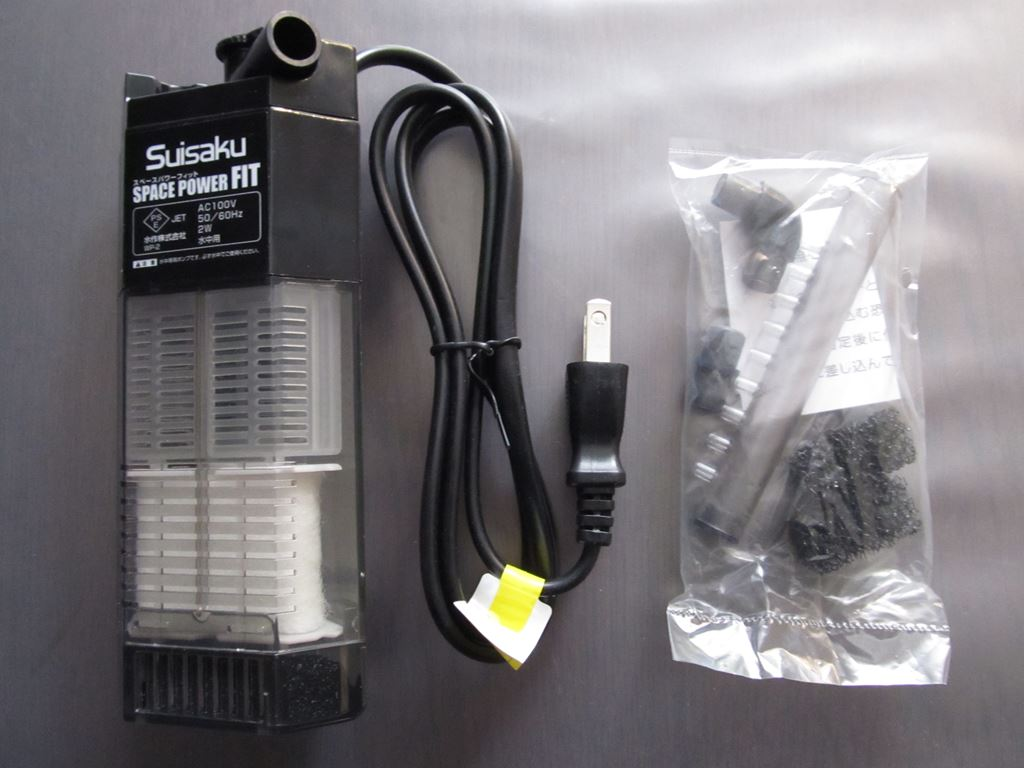 Suisaku filter for aqualium